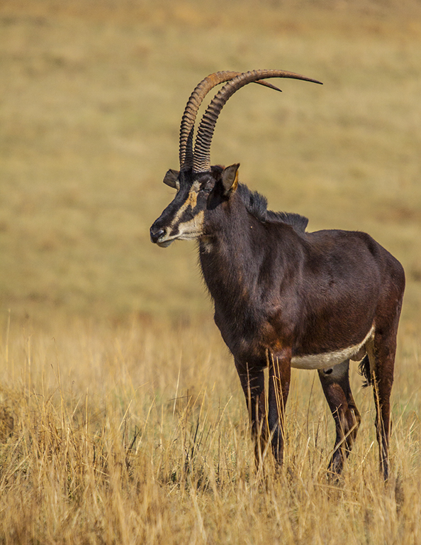 sable antelope (Hippotragus niger) inhabits wooded savannah in East Africa south of Kenya and in Southern Africa., The grassland habitat of the sable is being reduced due to habitat destruction for agricultural development. . The giant sable antelope of central Angola is classified as critically endangered.